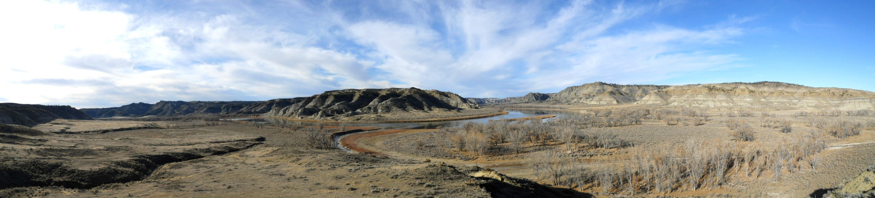 Panoramic photo with far left looking southeast and far right looking northwest. In the center of the photo Cow Creek flows into the Missouri. Cow Creek bottom is on the right half of the photo, and Cow Creek may be seen extending up into the breaks on the far right. On the left half of the photo is the smaller Bull Creek and Bull Creek Bottom. The Missouri flows into the right side of the photo, and curves around the highland on the opposite side of the river and then flows out of the photo to the southeast on the left half of the photo. Cow Island is in the Missouri, below the mouth of Cow Creek. Only the trees of Cow Island are visible on the left side of the photo, in this view. The steamboats dropping freight at Cow Island Landing during the steamboat era (1860 to mid 1880's) used landing sites both above and below the mouth of Cow Creek. However, the landing site on the right half of the photo would have a deeper channel against the north bank, and a snubbing post was reportedly set in the bank, in the vicinity of the Kipp homestead. Freight left by steamboats was freighted up Cow Island Trail which ran up Cow Creek (on the far right of the photo) through the breaks, until the trail gained access to the Montana plains and on to Ft. Benton. The abandoned Kipp Homestead is across Cow Creek on the right half of the photo. Another abandoned homestead is on Bull Creek bottom in the left half of the photo. On September 23, 1877 the Nez Perce crossed the Missouri at Cow Island, on the left half of the phto, in their flight to Canada. The entrenchments into which a small detachment of soldiers and civilians retreated is on the far right of the photo, probably in the vicinity of the Kipp homestead. Cow Creek and Cow Island, once a busy pathway of travel through the Missouri Breaks and across the Missouri River, and formerly a seasonal freight transshipment point, is now a quiet and remote spot in the extensive Missouri Breaks region of Montana.